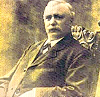 Johann Fiege, founder of the private brewery Moritz Fiege in bochum, germany